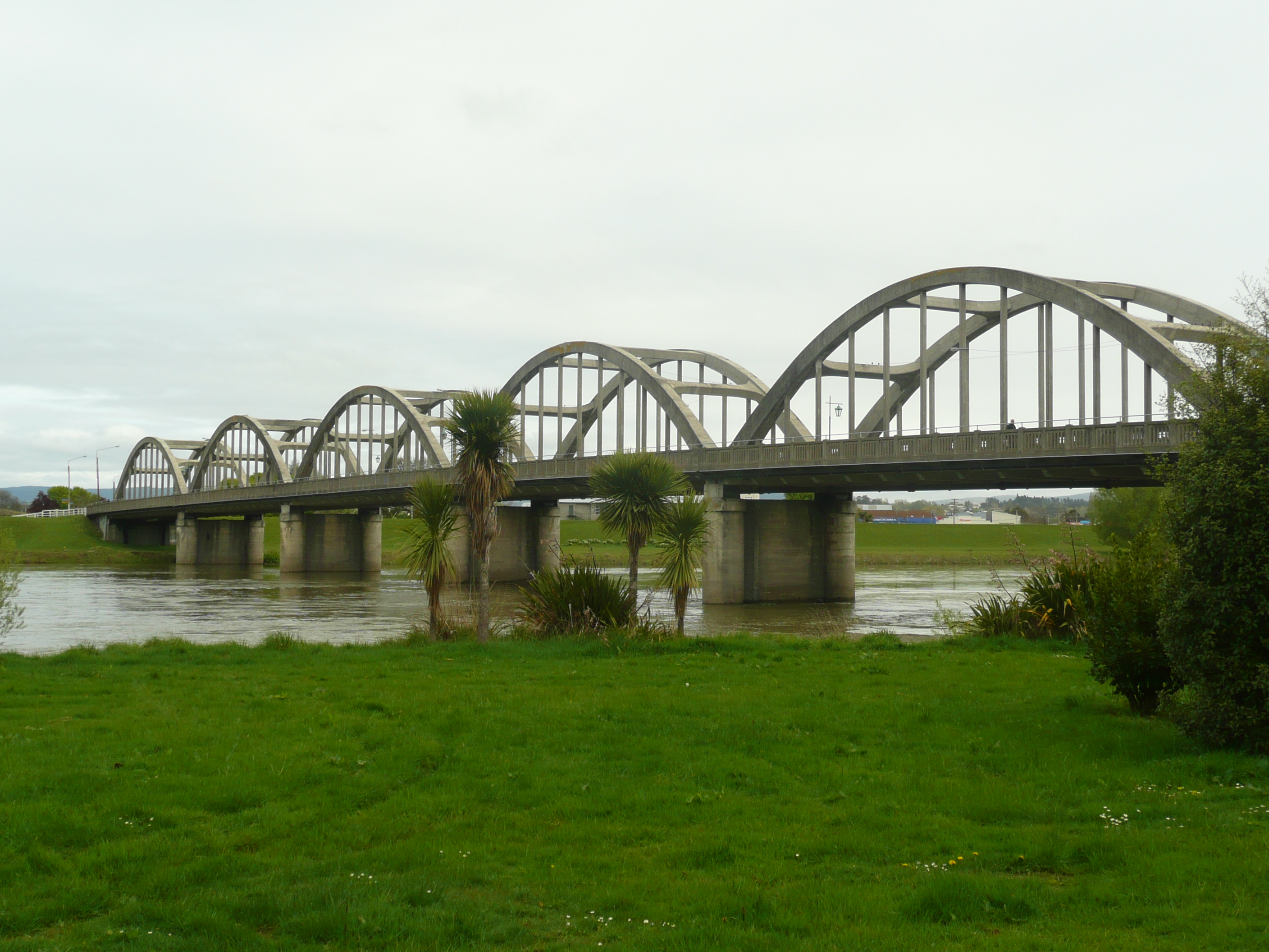 Bridge across the Clutha River at Balclutha, New Zealand.